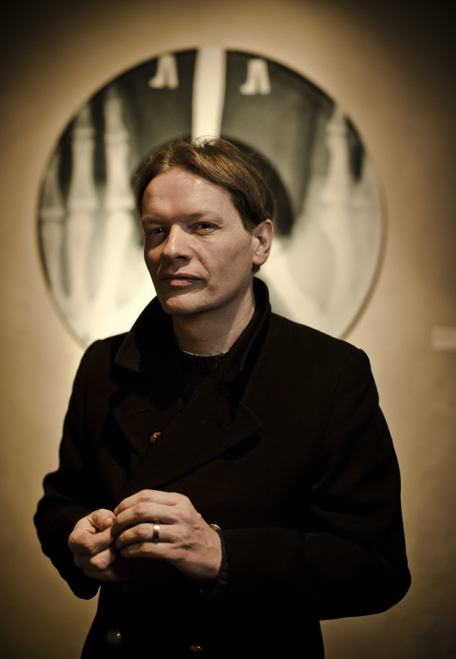 Stephen Coates at London's The Horse Hospital (image. Paul Heartfield)